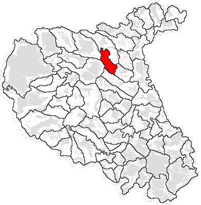 Limits of commune within Vrancea County